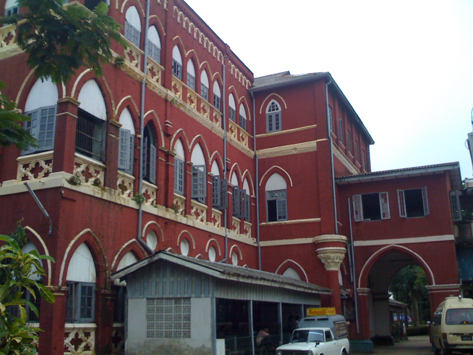 Building C of Central Wonmen's Hospital